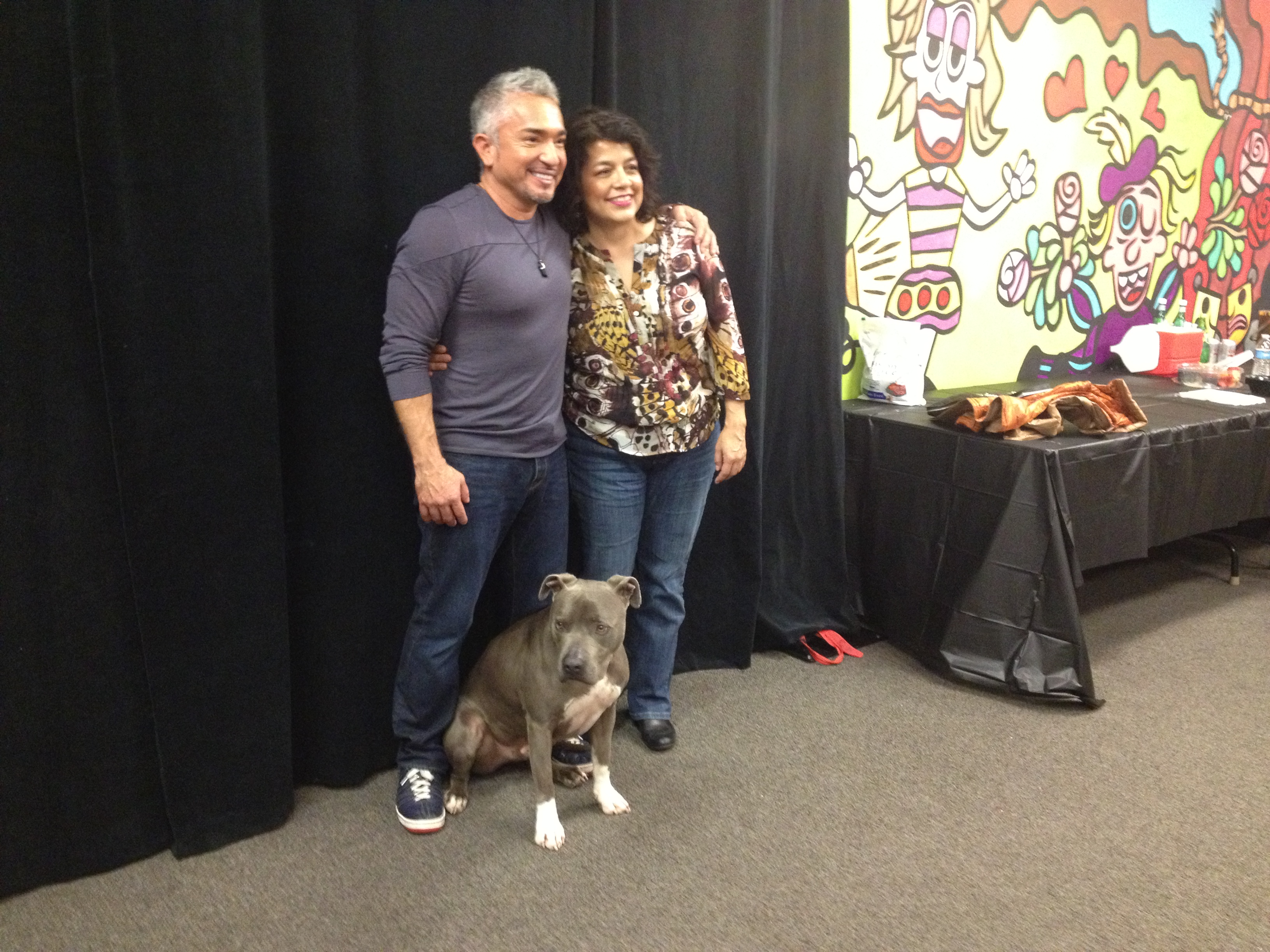 Cesar Millan - The Dog Whisperer Live in Chandler, Arizona